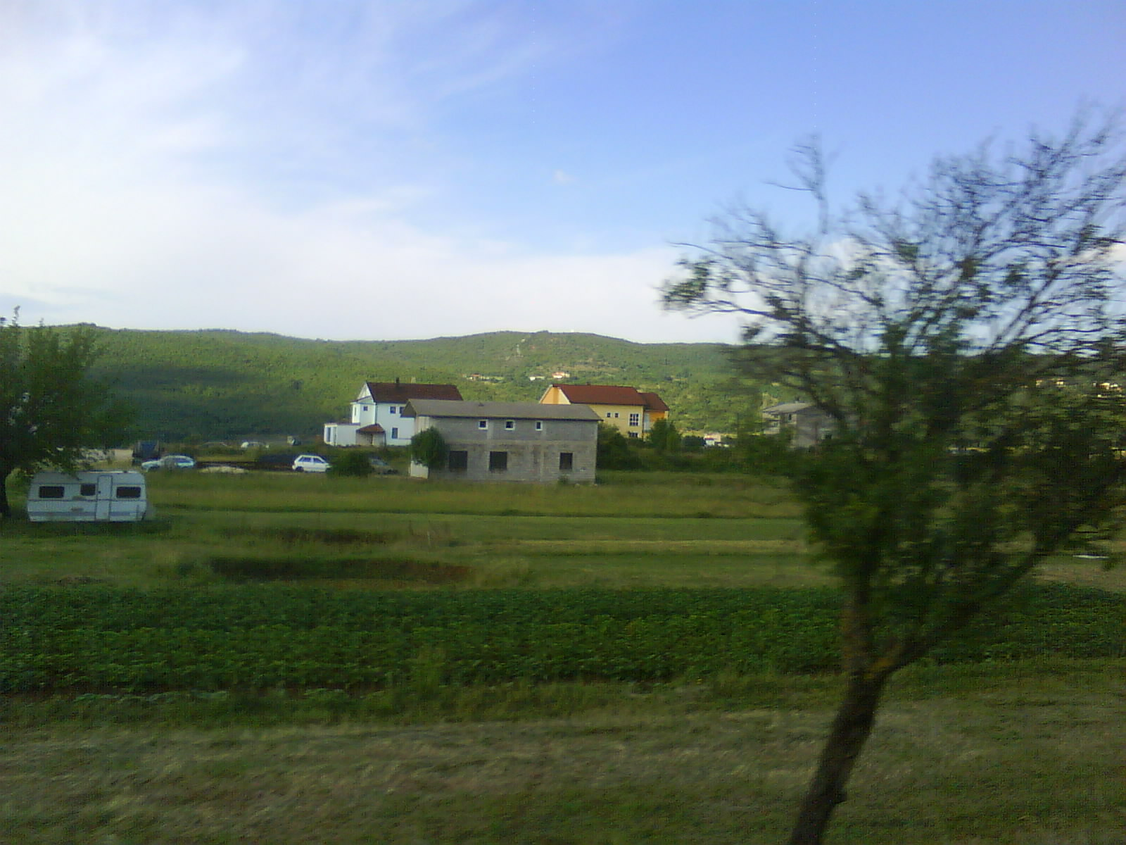 Landscapes in the municipality of Posušje